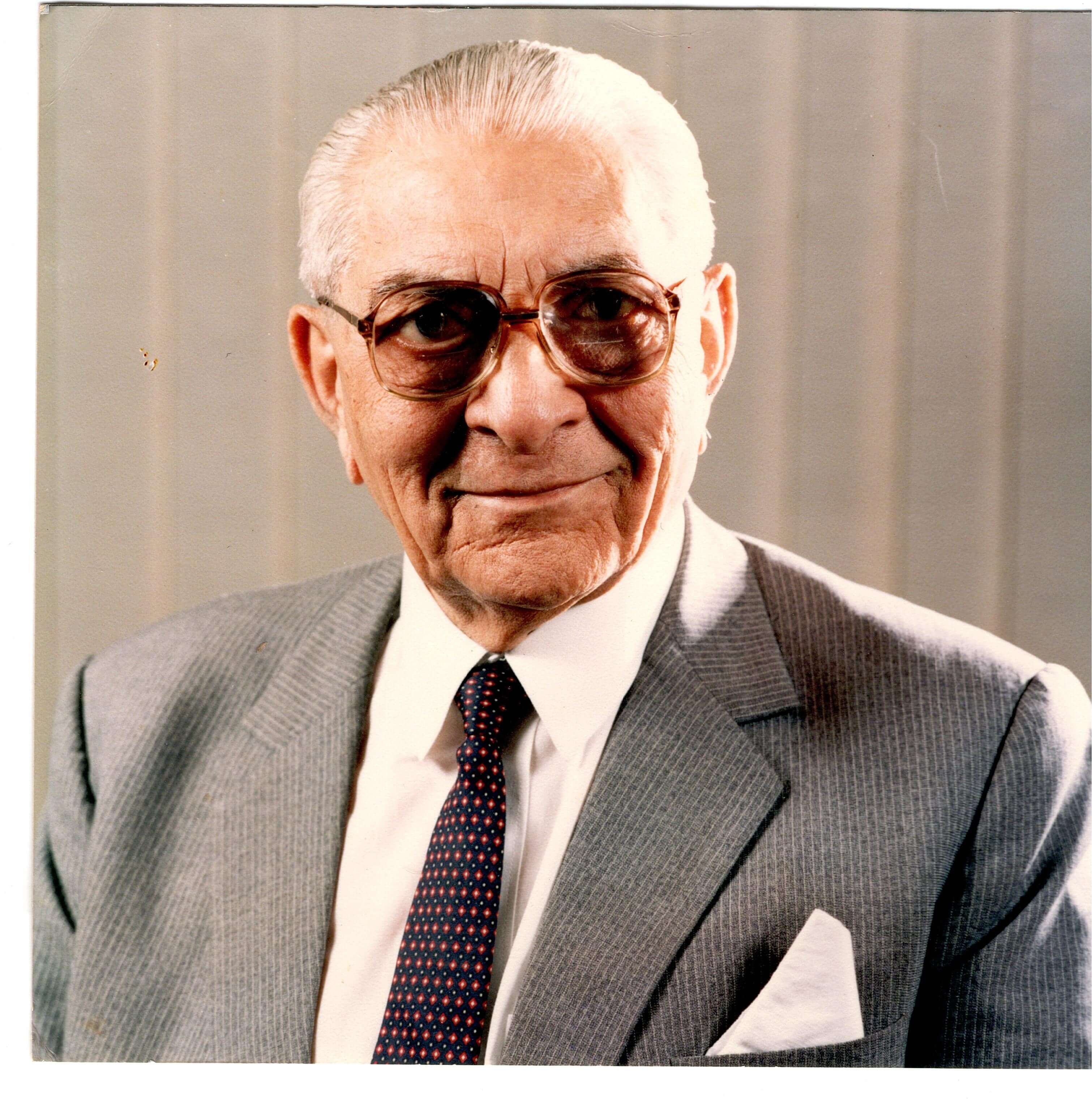 Ahmad Dawood